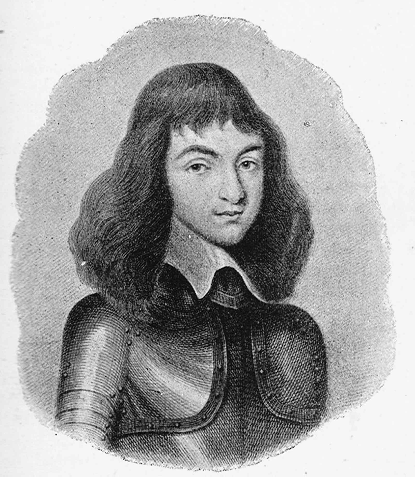 Robert Baillie (known as Baillie of Jerviswood; c. 1634 – 24 December 1684) From: Heroes and Heroines of the Scottish Covenanters; Dryerre, J. Meldrum; Partridge & Co London; 1901